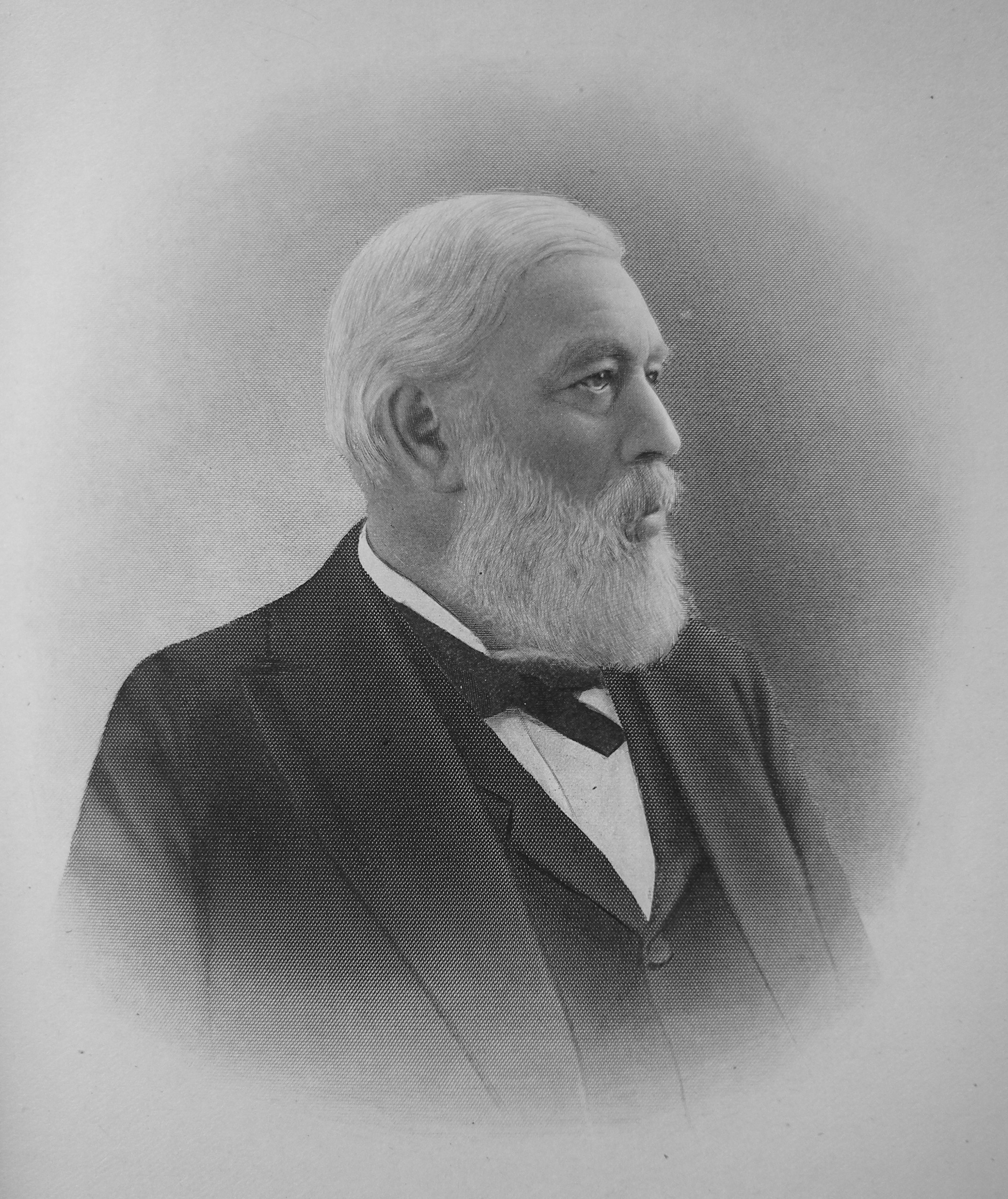 Seattle, Washington, USA mayor Orange Jacobs; also served in various other capacities in Washington State.